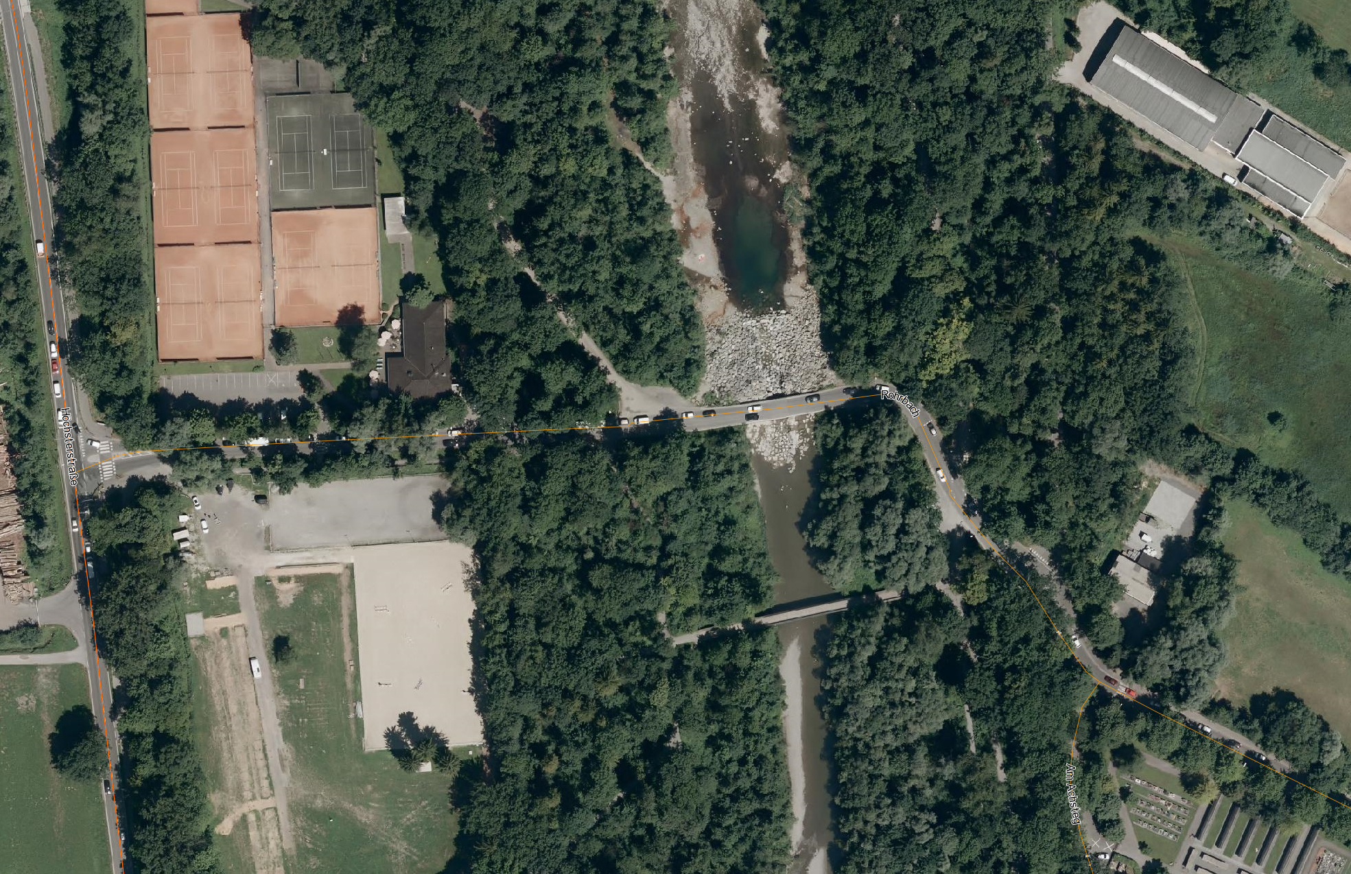 "Achfurt" (also "Furt an der Ach" or simple: "Furt" (=ford (crossing)) in Dornbirn (Vorarlberg, Austria). Country Vorarlberg - . Open Government Data Vorarlberg is licensed under a Creative Commons Attribution 3.0 Generic license. Approval for publication.